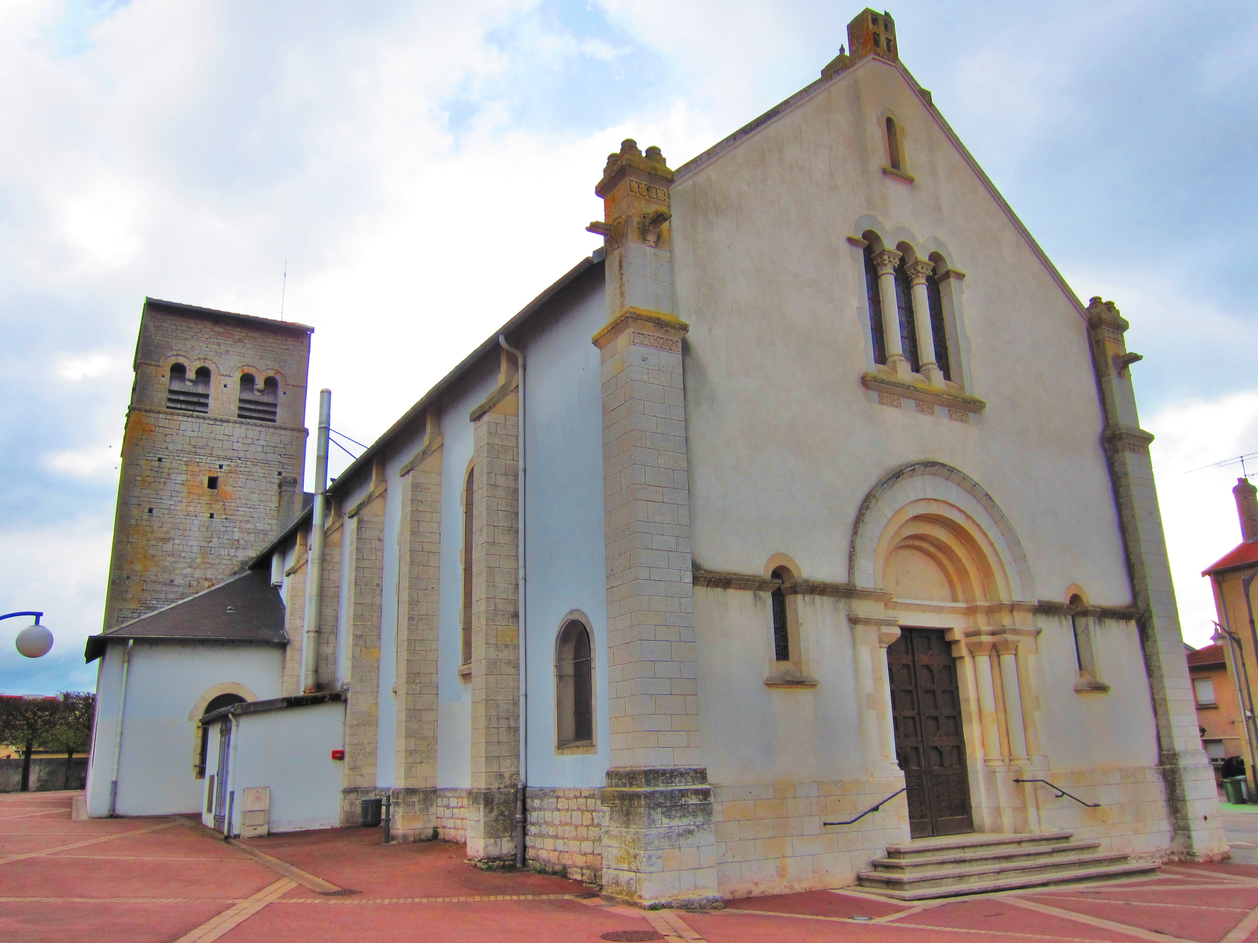 Saint Steven church in Blénod-les-Pont-à-Mousson